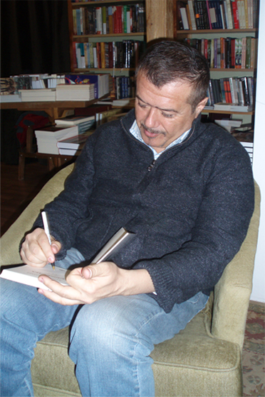 A photo of Vladimir Pištalo in Toronto.This photo was used in the following places: 1.